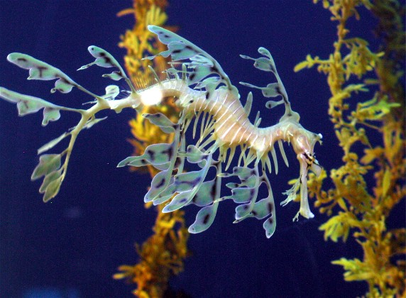 A Leafy Sea Dragon (Phycodurus eques).